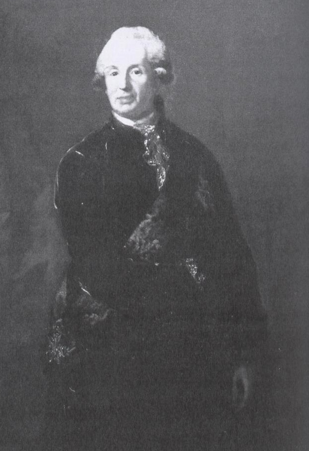 Andreas von Riaucour (1722-1794) kursächsischer Gesandter am kurpfälzischen Hof